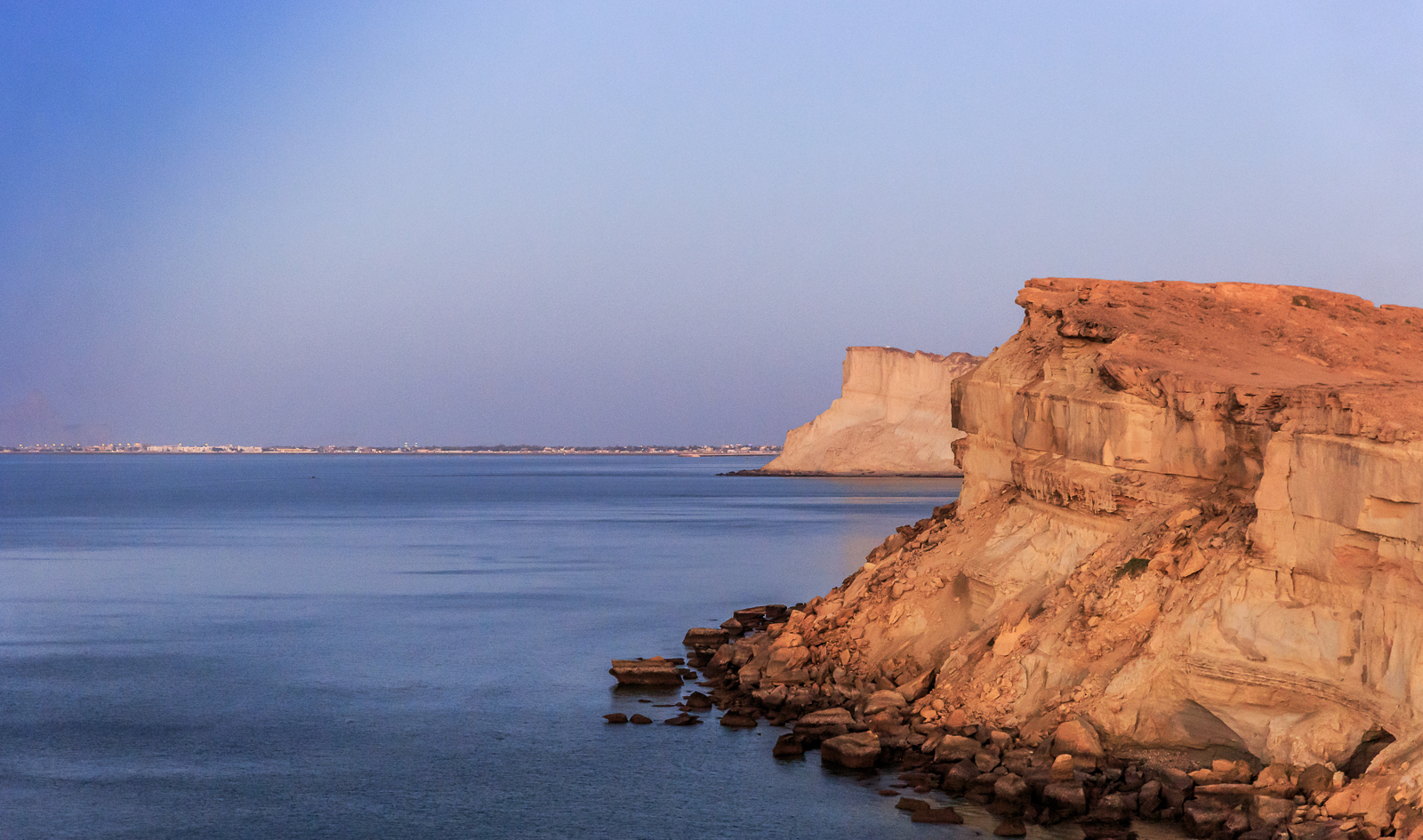 The word "Gwadar" is a combination of two "Balochi" words-"Gwat" means wind and "Dar" means Gateway. so the meaning of Gwadar is "The Gateway of wind".